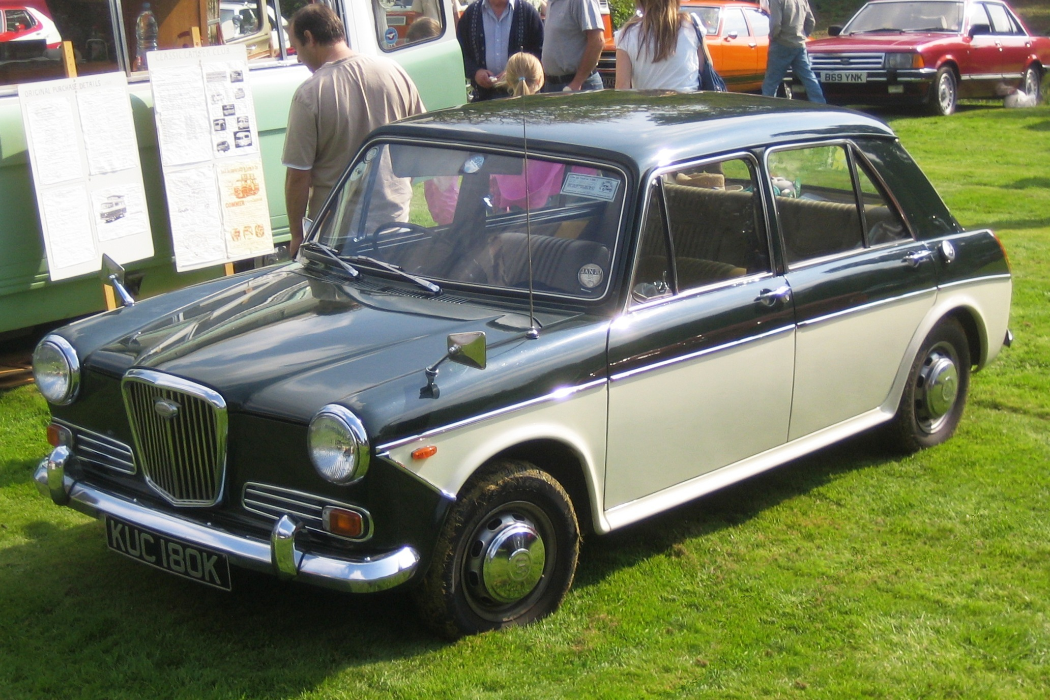 Wolseley 1300 at Castle Hedingham